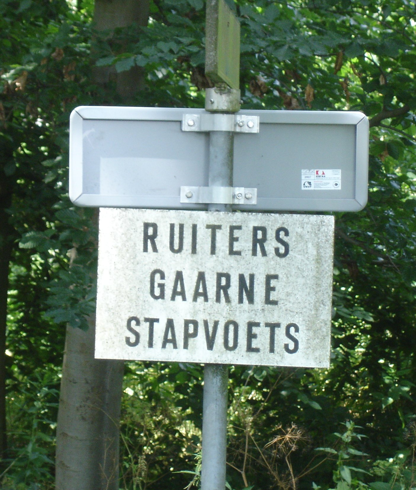 Horse riders at low speed